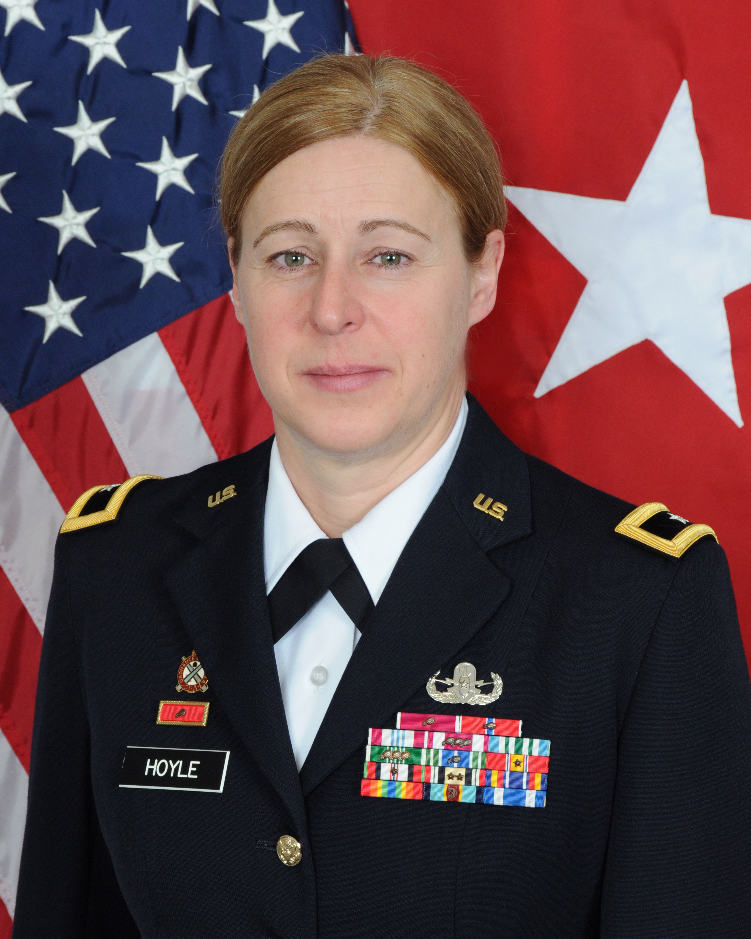 This is an official Army photograph and as such is in the public domain.